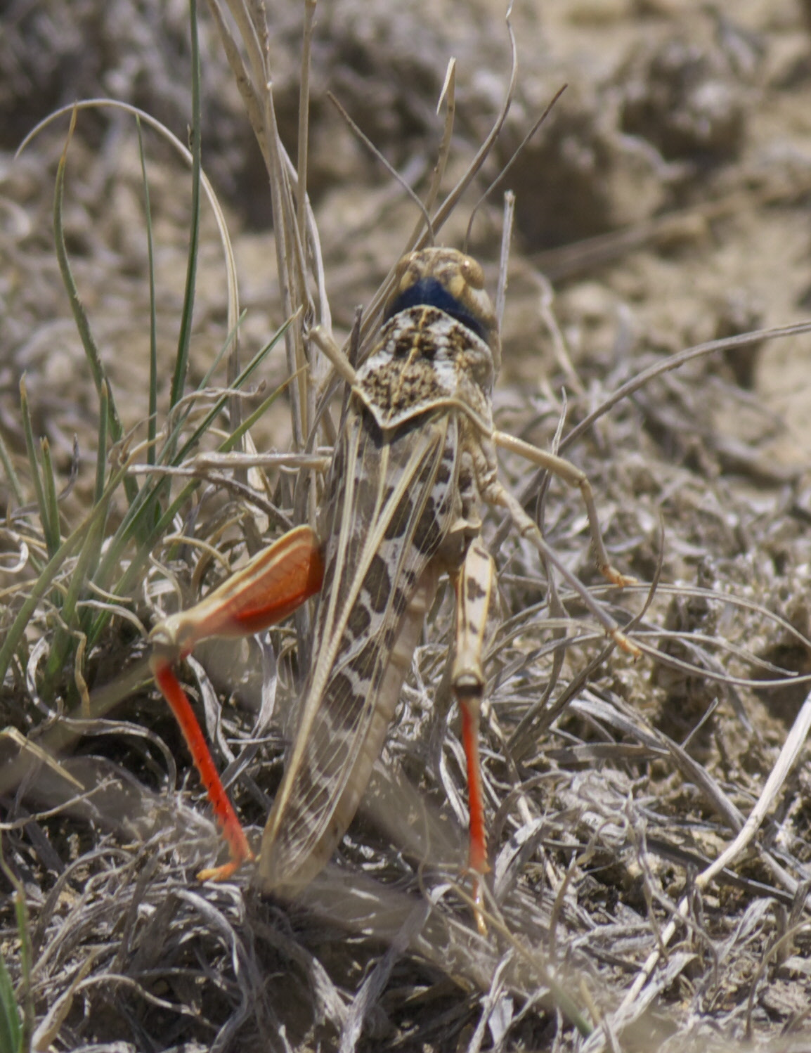 Xanthippus corallipes, Red-shanked Grasshopper, maybe pantherinus subspecies, ID Confidence: 88